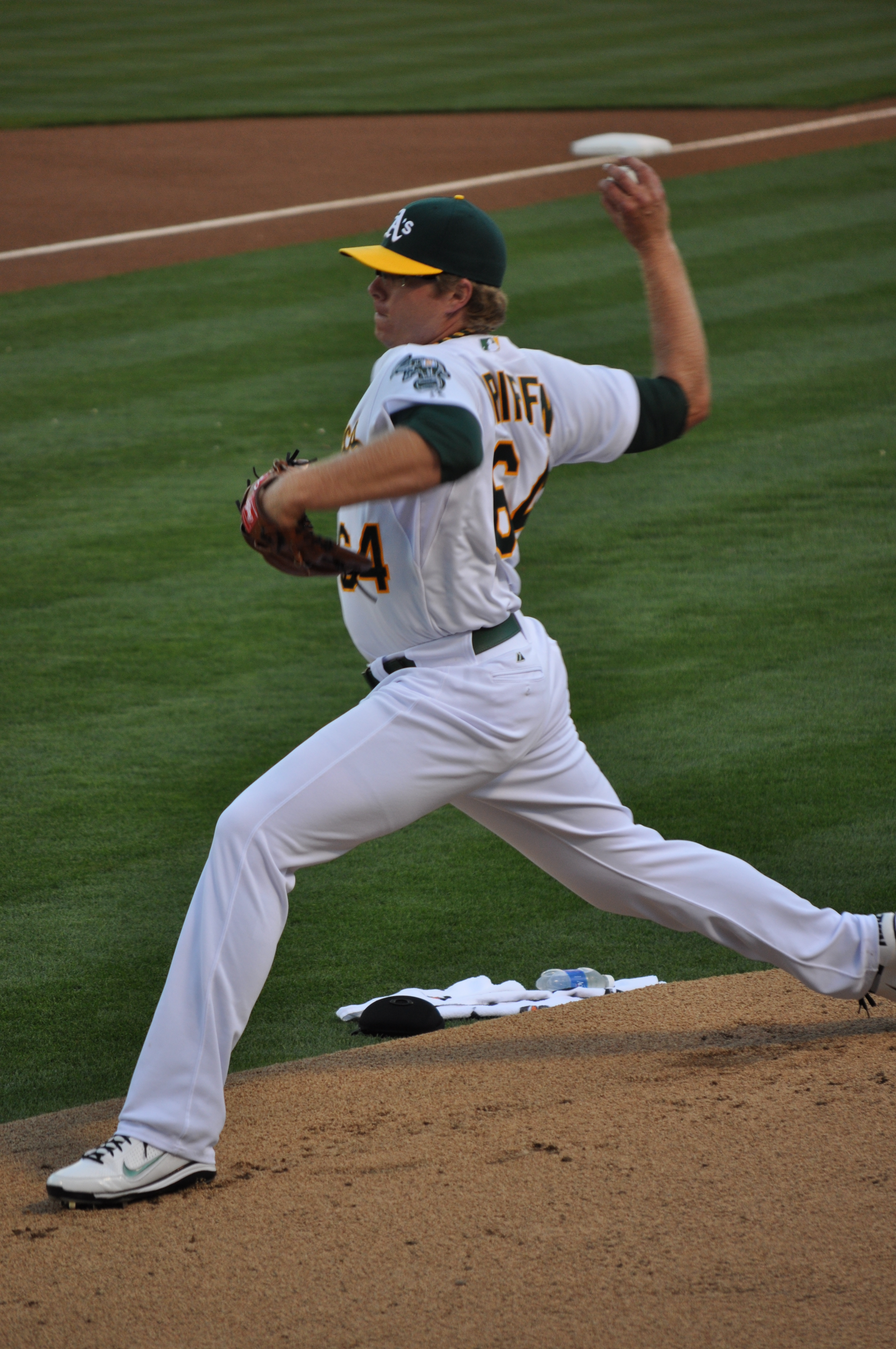 AJ warms up before his 7/19 start against the New York Yankees, where he earned the win, pitching 6 innings with 4 strikeouts and 7 hits and 2 earned runs allowed.